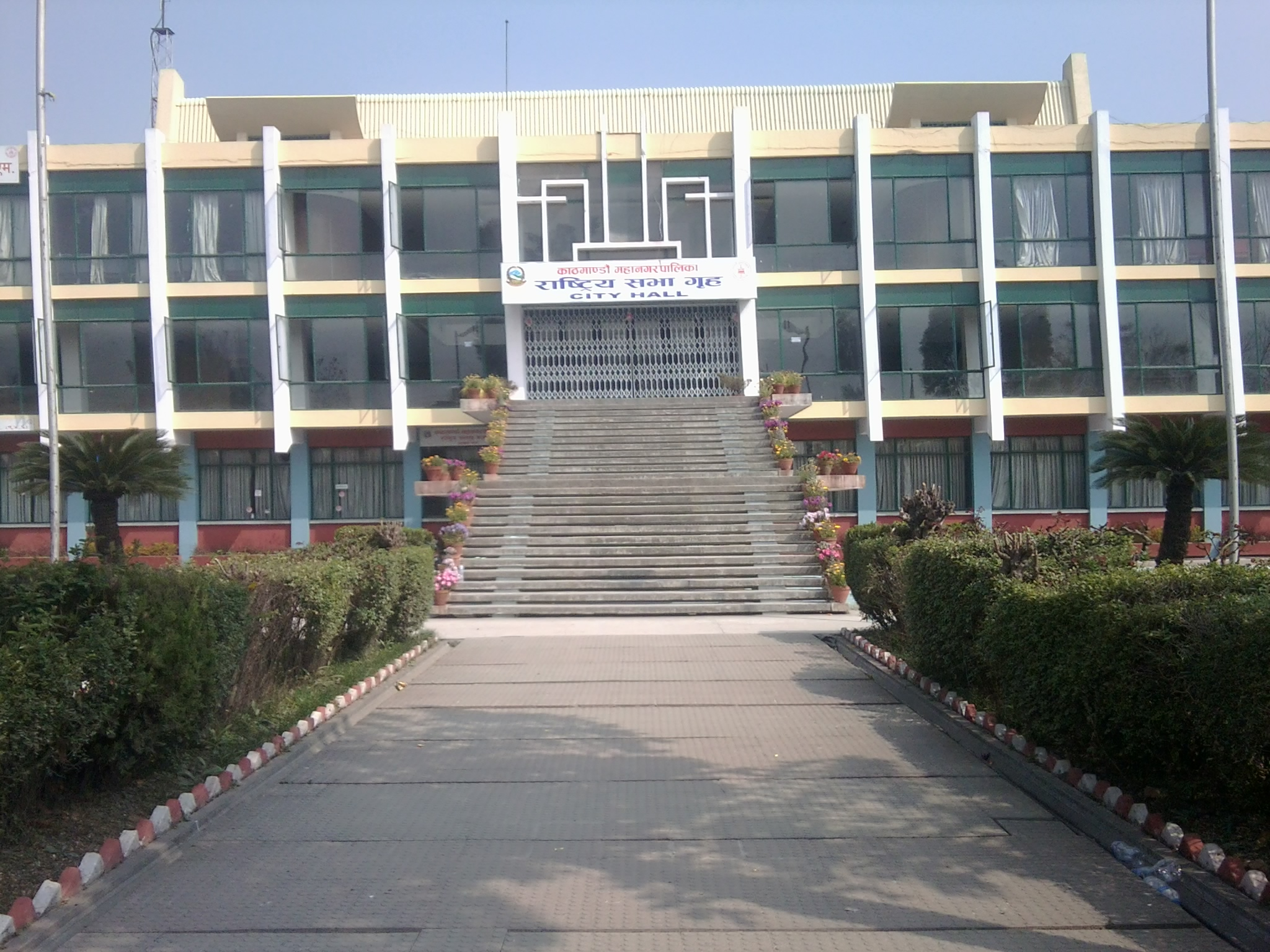 National Assembly House of Nepal in Kathmandu.